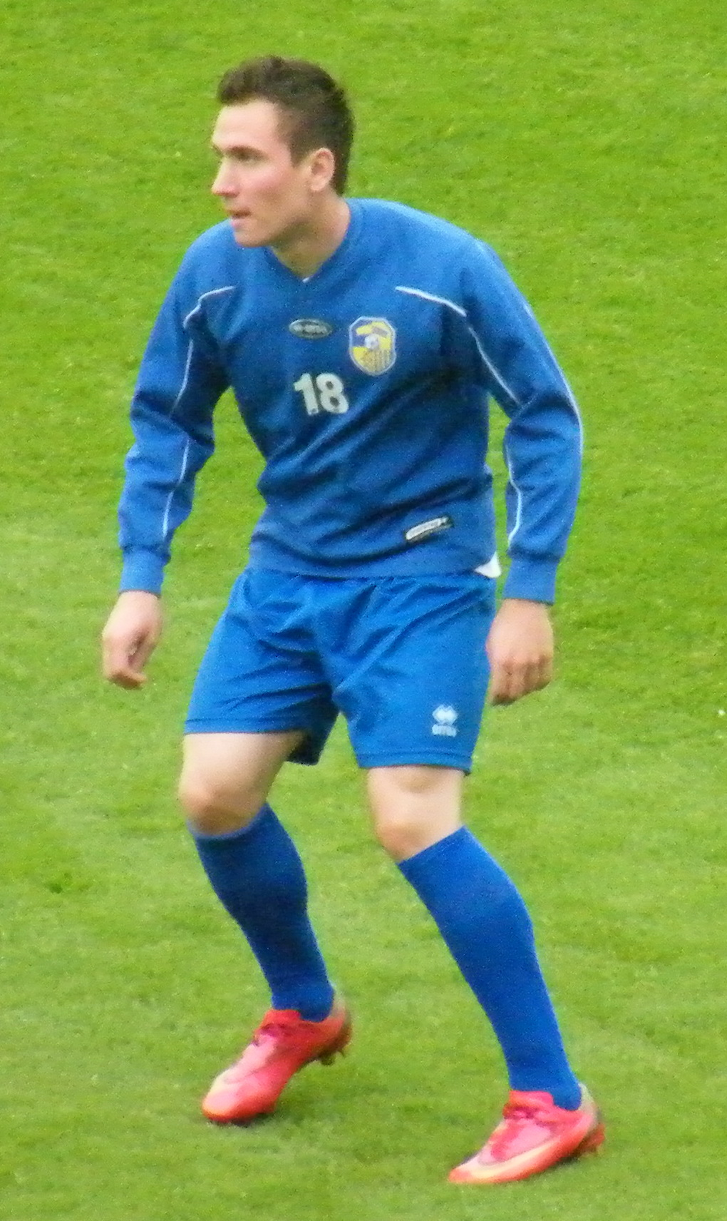 Marcell Takács Hungarian association football player.